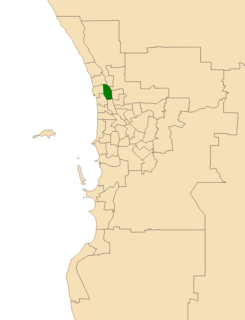 Location of the electoral district of Kingsley in the Perth metropolitan area, Western Australia as of the 2017 WA state election.